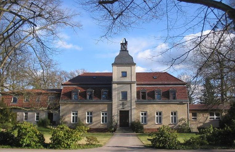 Kloster Alexanderdorf – Benediktinerinnenabtei St. Gertrud, a monastery for women in Kummersdorf-Alexanderdorf, part of the municipality Am Mellensee in the Teltow-Fläming district of Brandenburg, Germany. The Benedictine nunnery was founded in 1934 and was elevated in 1984 to an abbey.